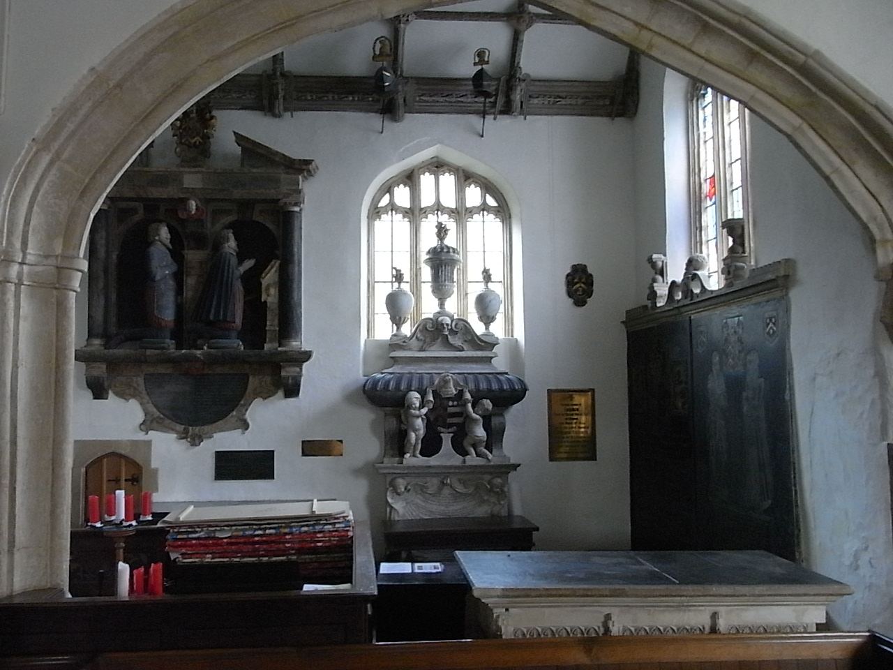 View into Wyndham Chapel occupying east end of north aisle, St Decuman's Church, Watchet, Somerset